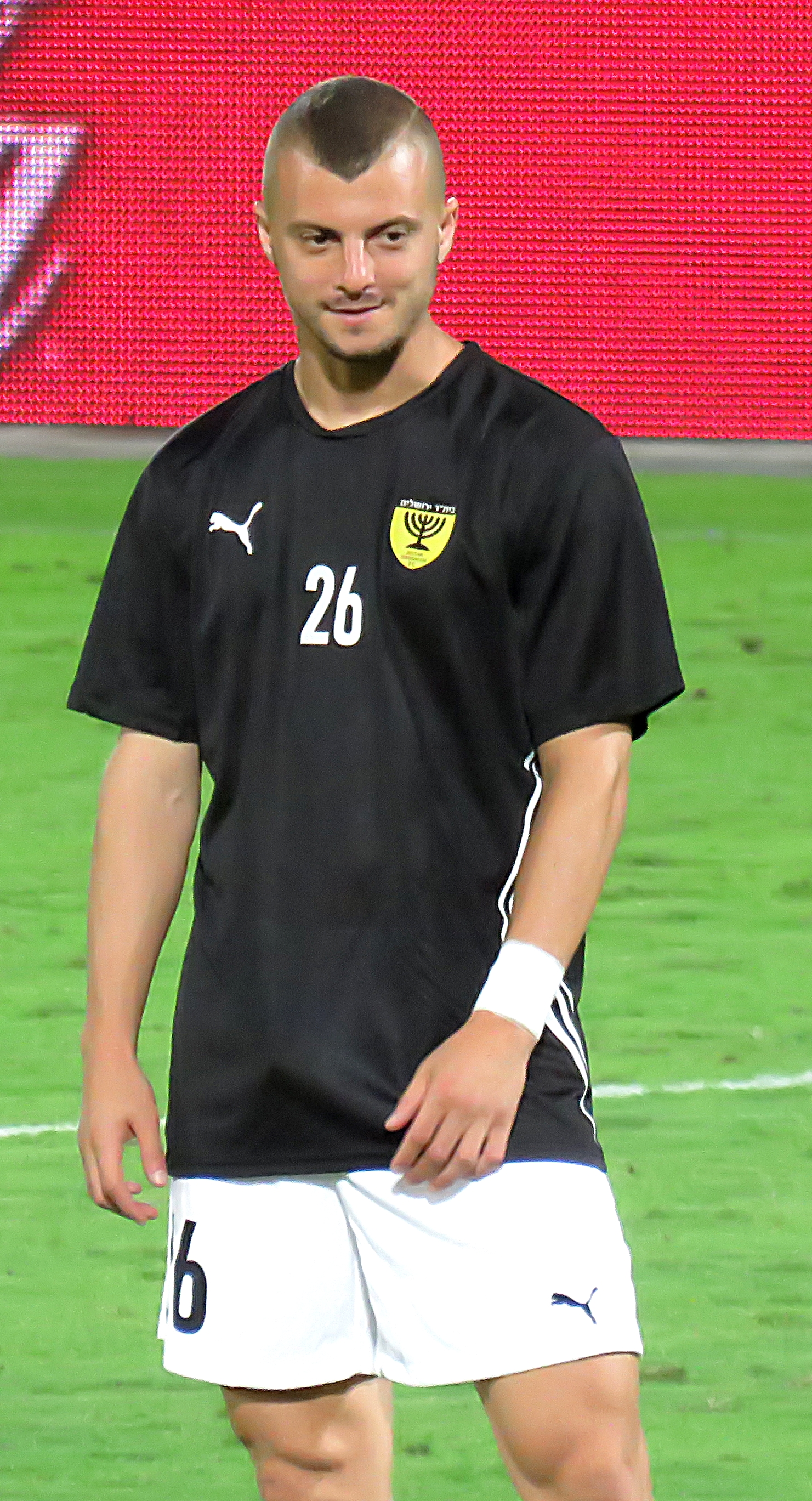 Bnei Yehuda Tel Aviv vs. Beitar Jerusalem - 19 September, 2015